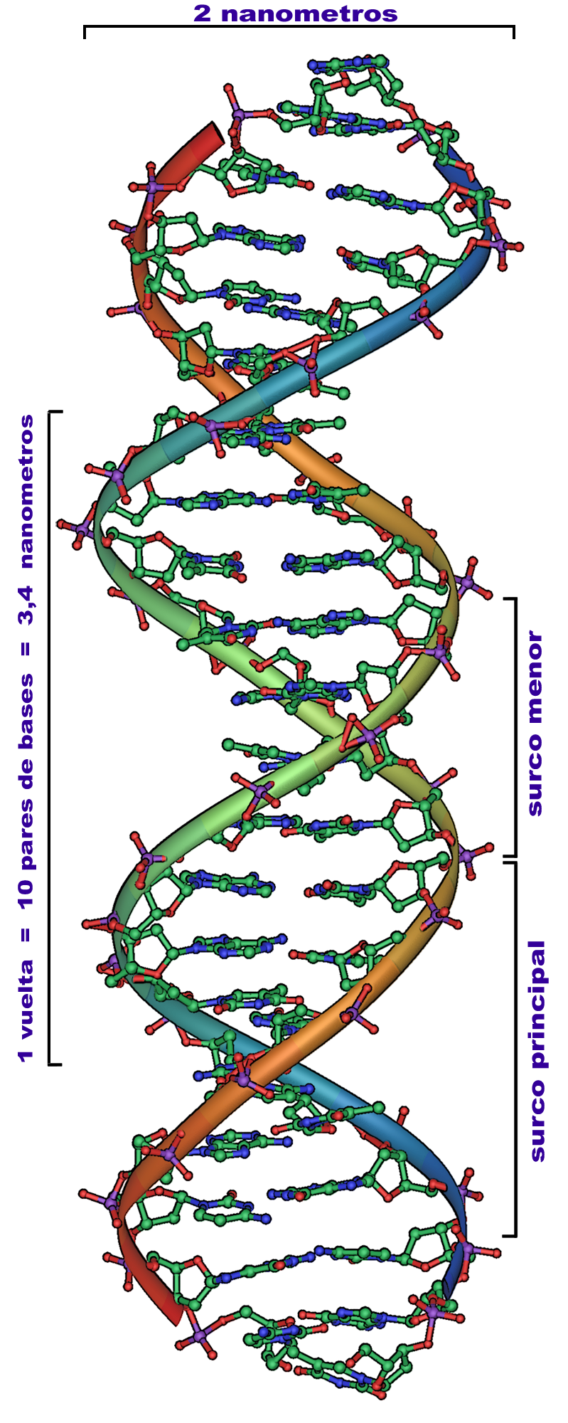 An overview of the structure of DNA. Created by Michael Ströck (mstroeck) on February 8, 2006. Released under the GFDL. Translated in spanish by Miguelsierra on March 30, 2008